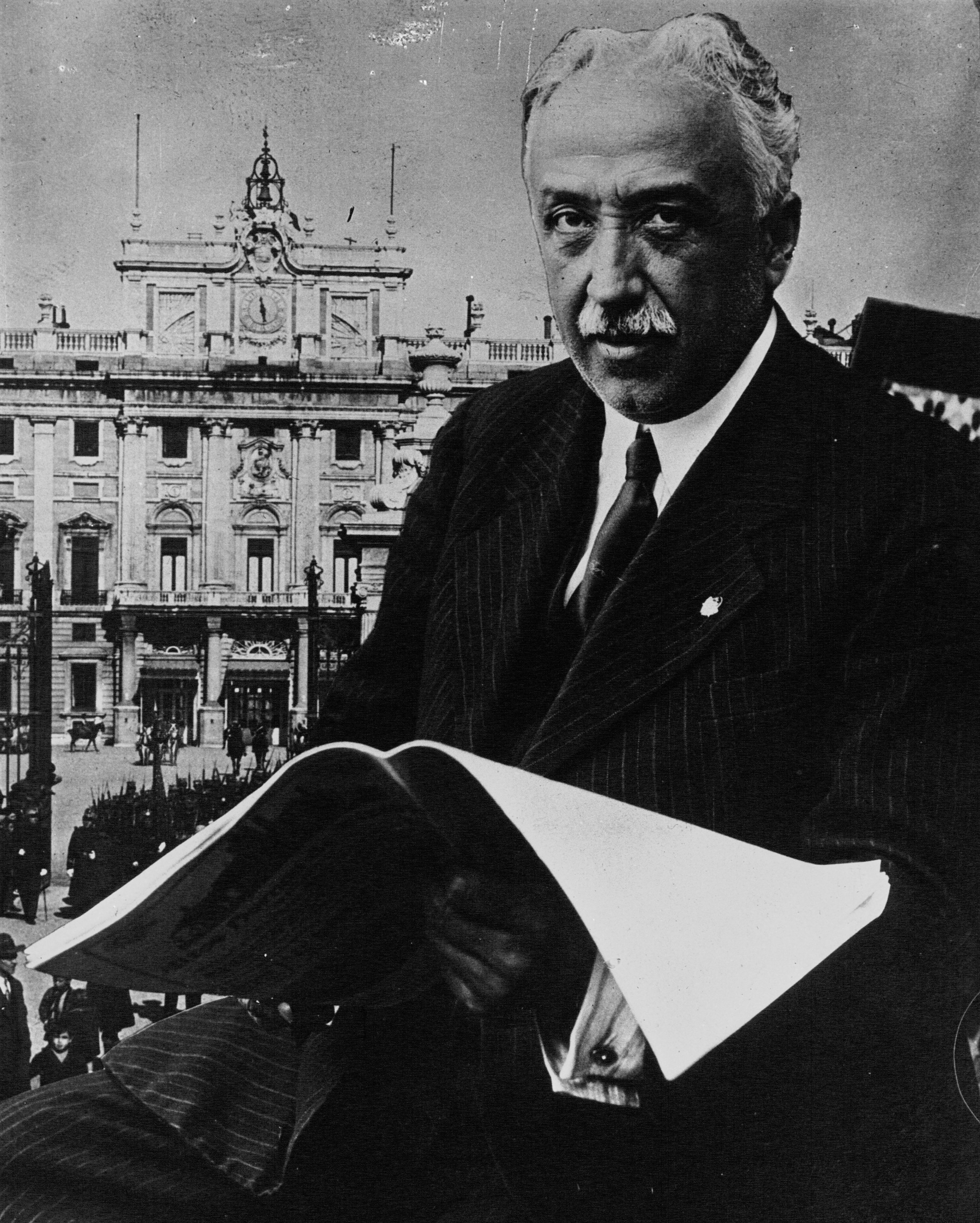 Spanish President Niceto Alcalá-Zamora (1877-1949).